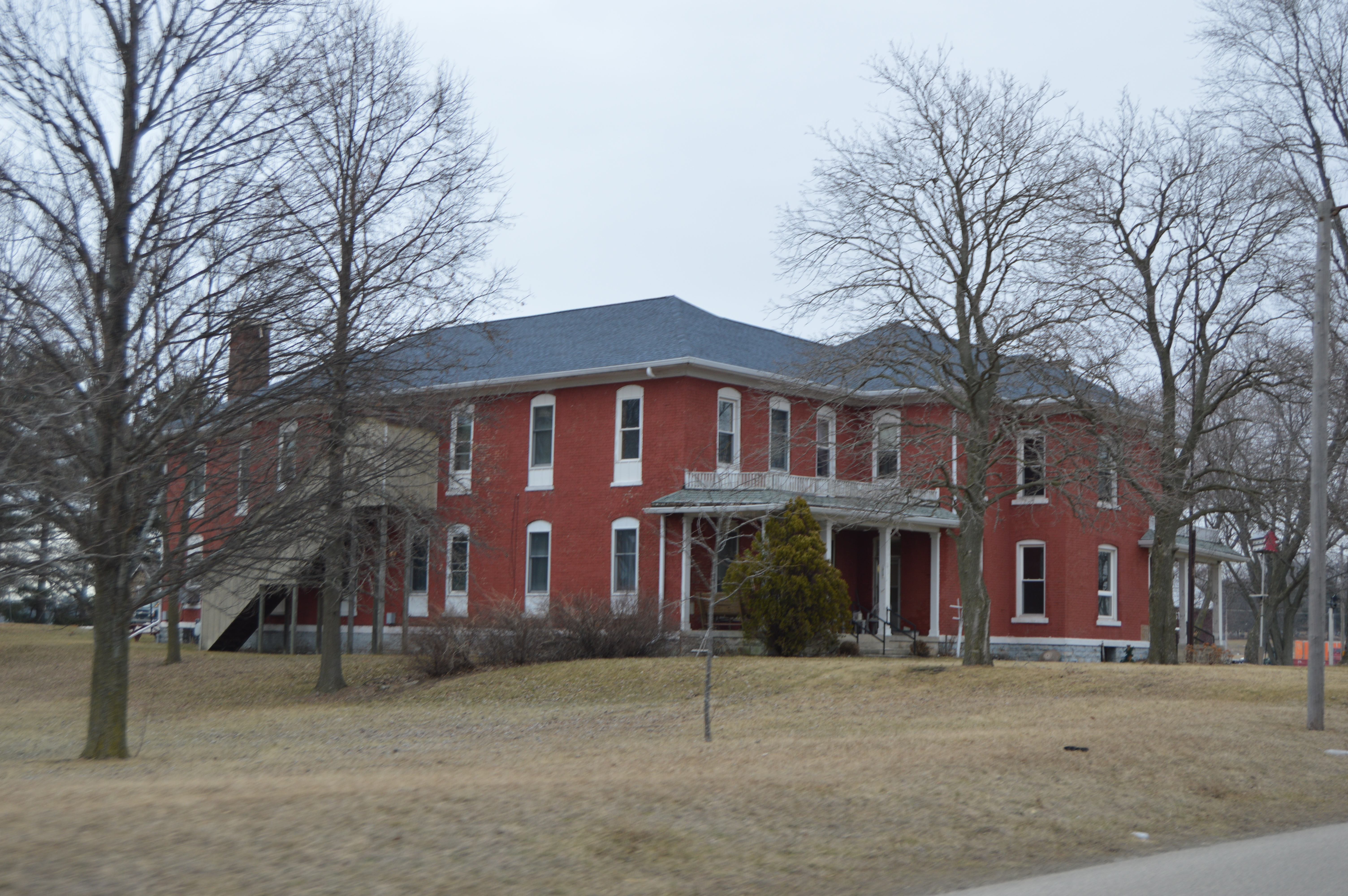 Western side and front of the former Pulaski County Home, located at 700 W60S west of Winamac in Monroe Township, Pulaski County, Indiana, United States. Built in 1881, it is listed on the National Register of Historic Places.